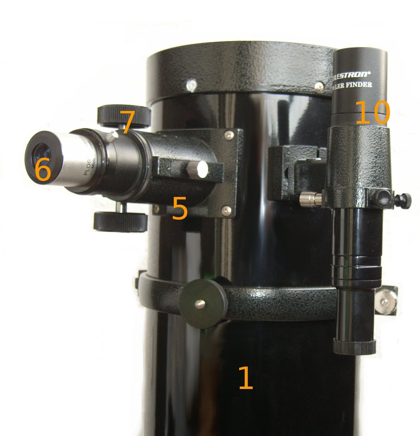 Newtonian scope.